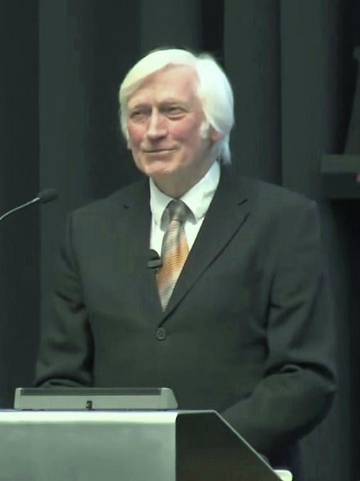 Richard Overy, a British historian and writer.